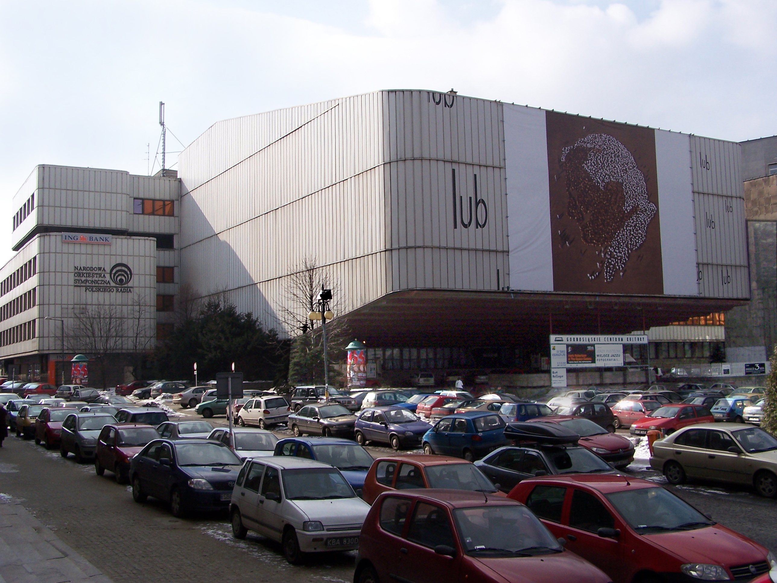 Upper Silesian Centre of Culture in Katowice (Poland).